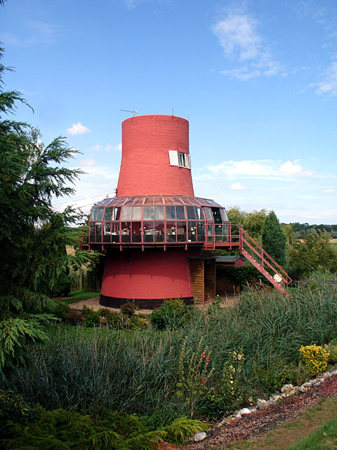 The house converted windmill on the north bank of the river at Reedham Ferry, Norfolk